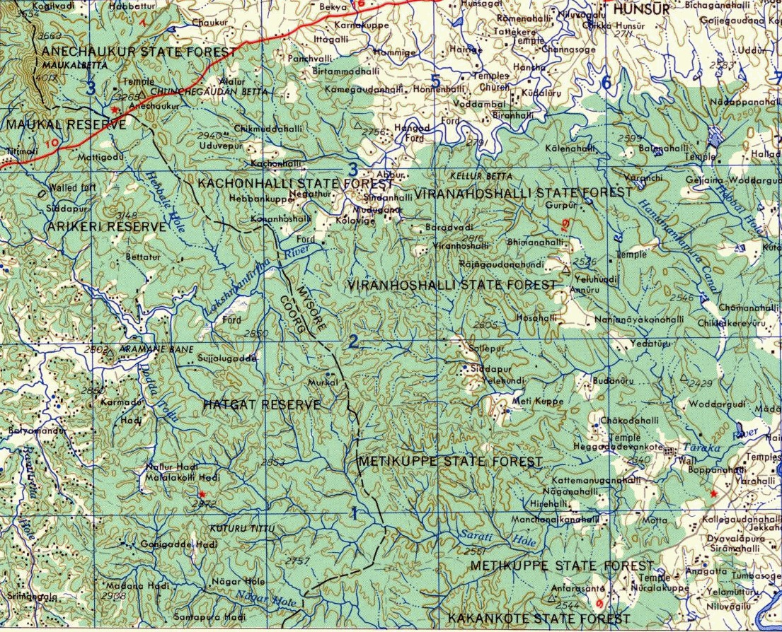 Map of Nagerhole area, India